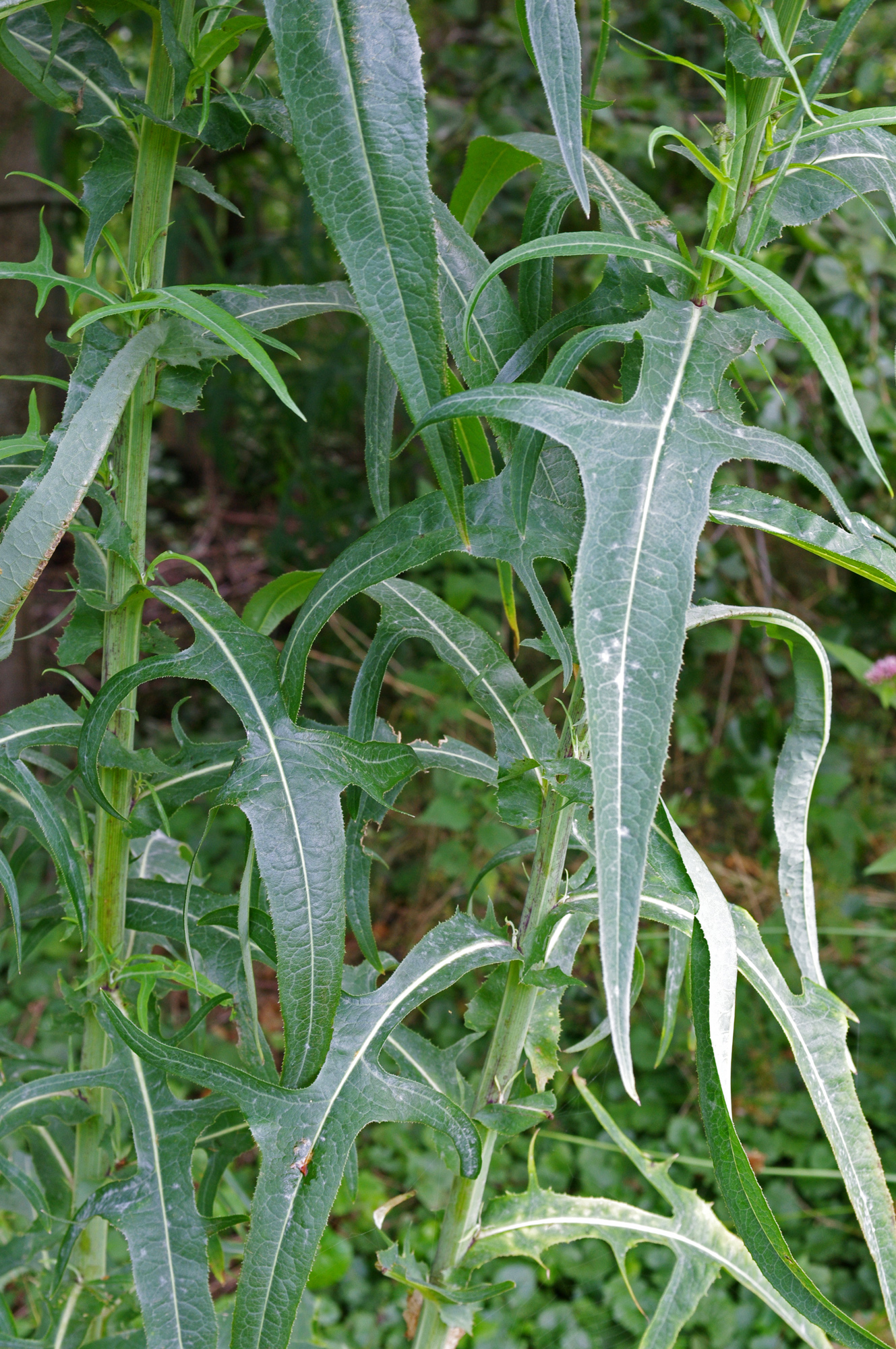 Leaves of Sonchus palustris.